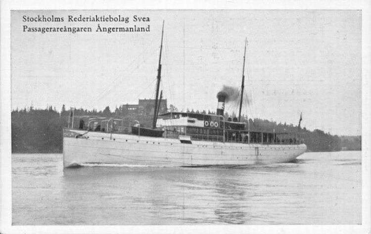 Passenger steamer S/S Ångermanland